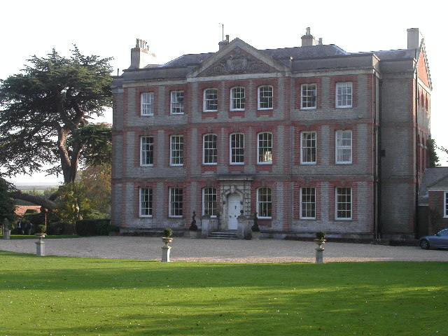 Grade II* Ardington House, built about 1720.